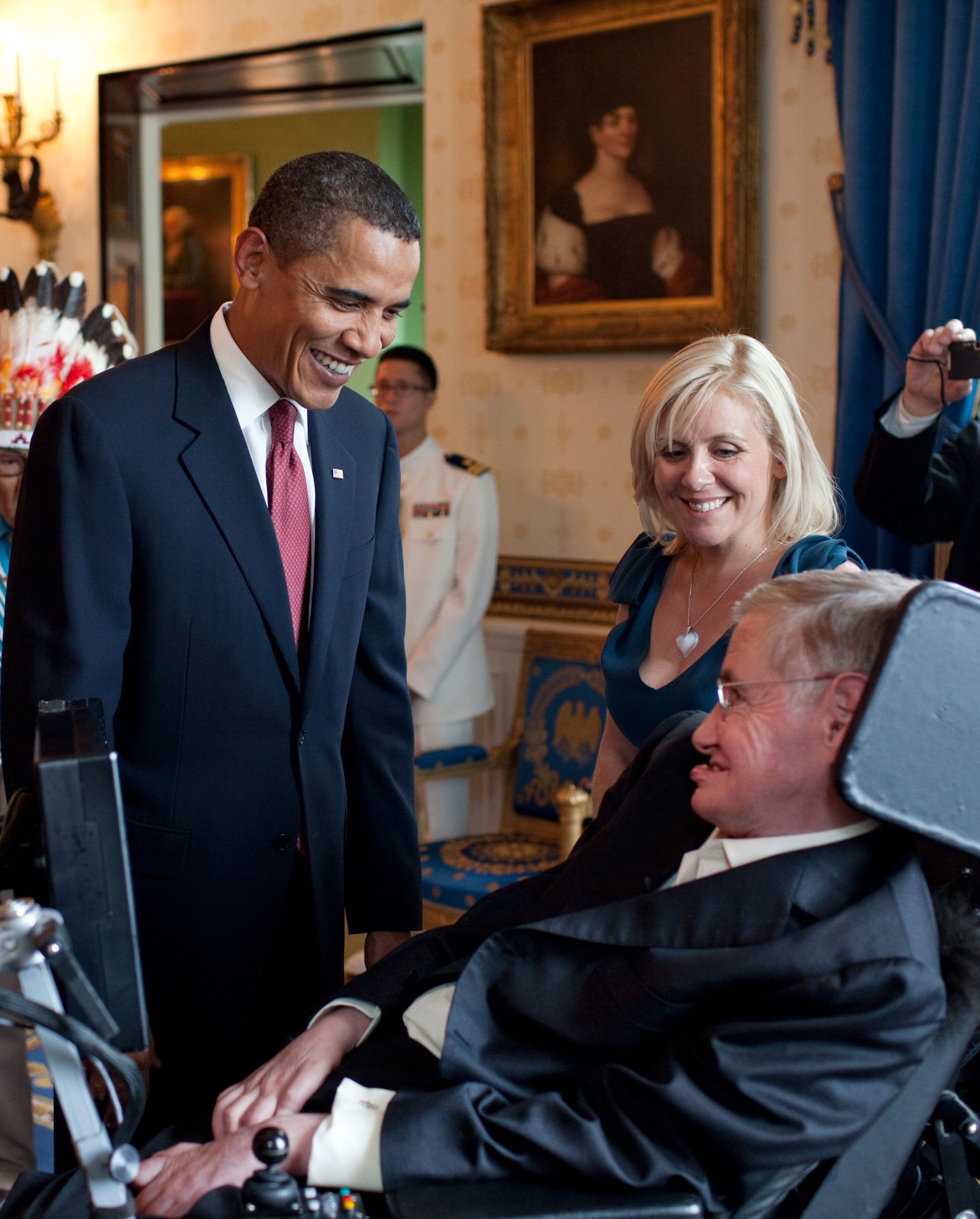 United States President Barack Obama talks with Stephen Hawking in the Blue Room of the White House before a ceremony presenting him and 15 others the Presidential Medal of Freedom on 12 August 2009. The Medal of Freedom is America's highest civilian honor. To Stephen's right is his daughter Lucy Hawking.